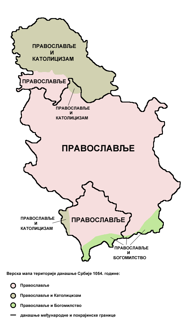 Religion map of the territory of present-day Serbia in 1054.